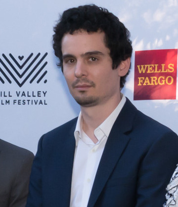 39th Mill Valley Film Festival